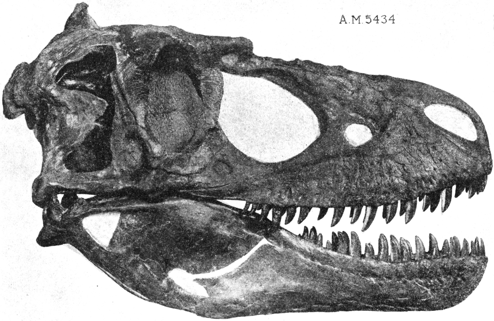 Originally believed to be a specimen of Gorgosaurus libratus this skull (AMNH 5434) was later sold to the Field Museum in Chicago and is now exhibited as FMNH PR308. The specimen was later reassigned to Daspletosaurus torosus by Thomas Carr in 1999.